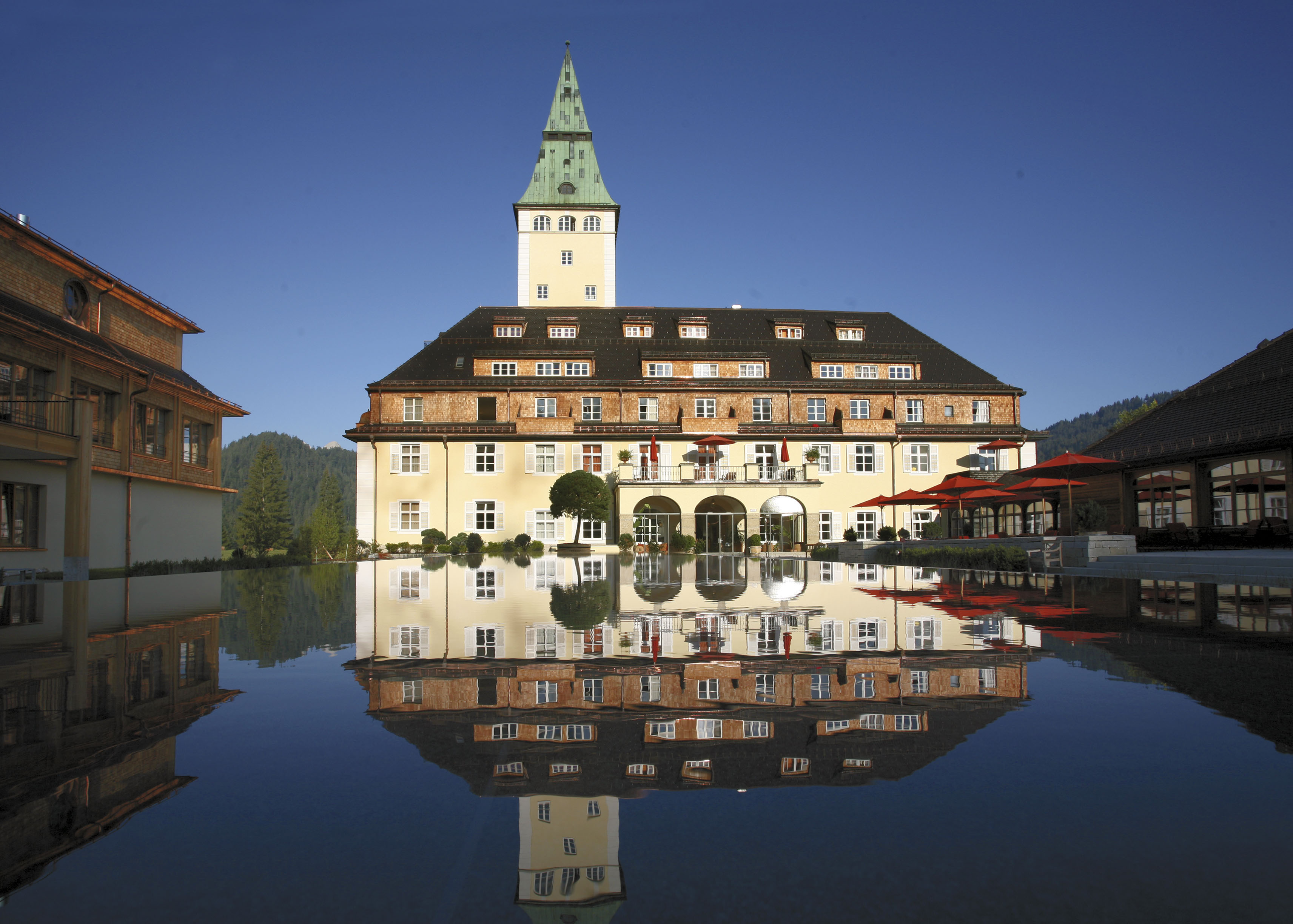 Schloss Elmau main entrance